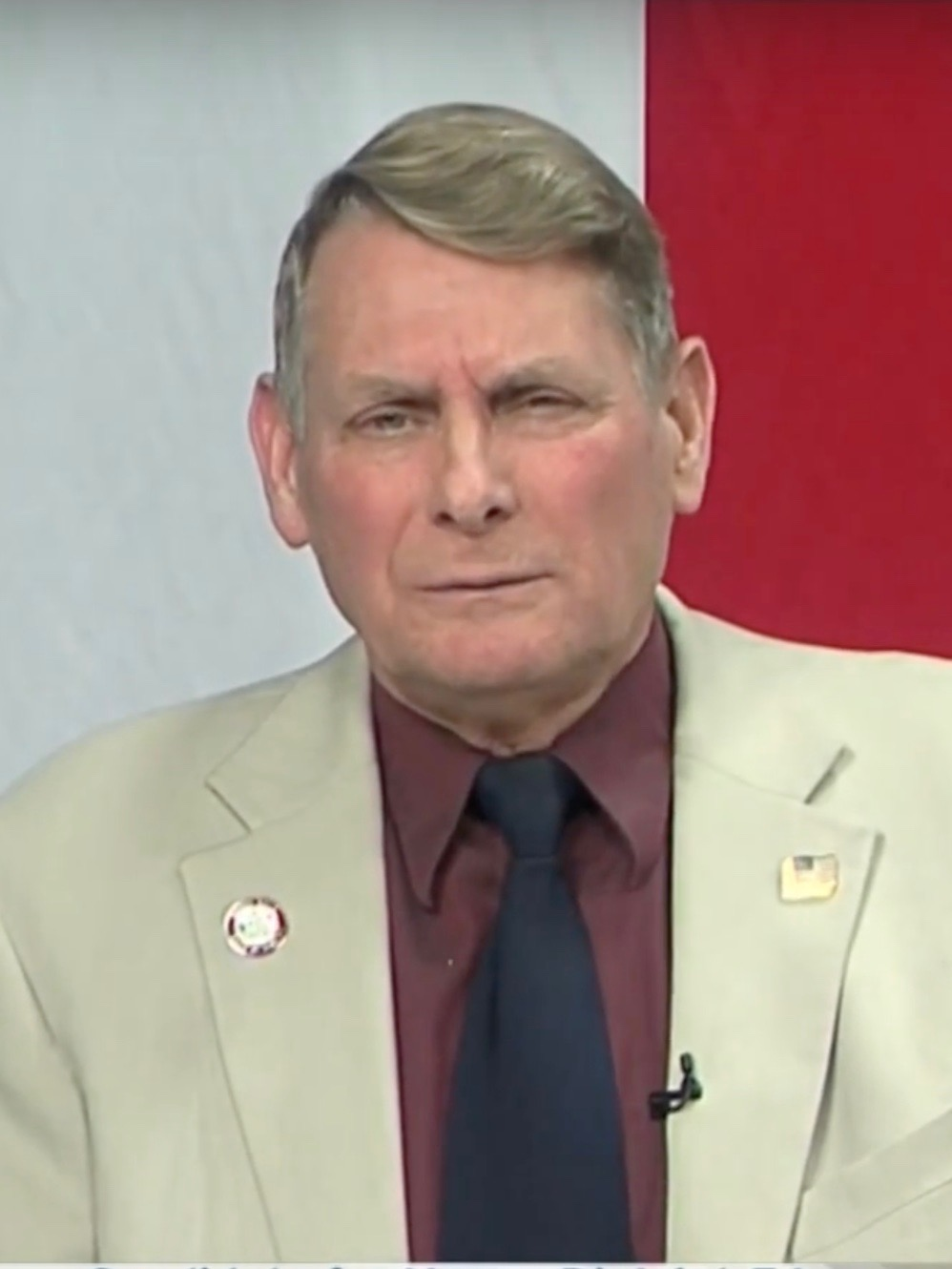 John Persell 2018 Debate